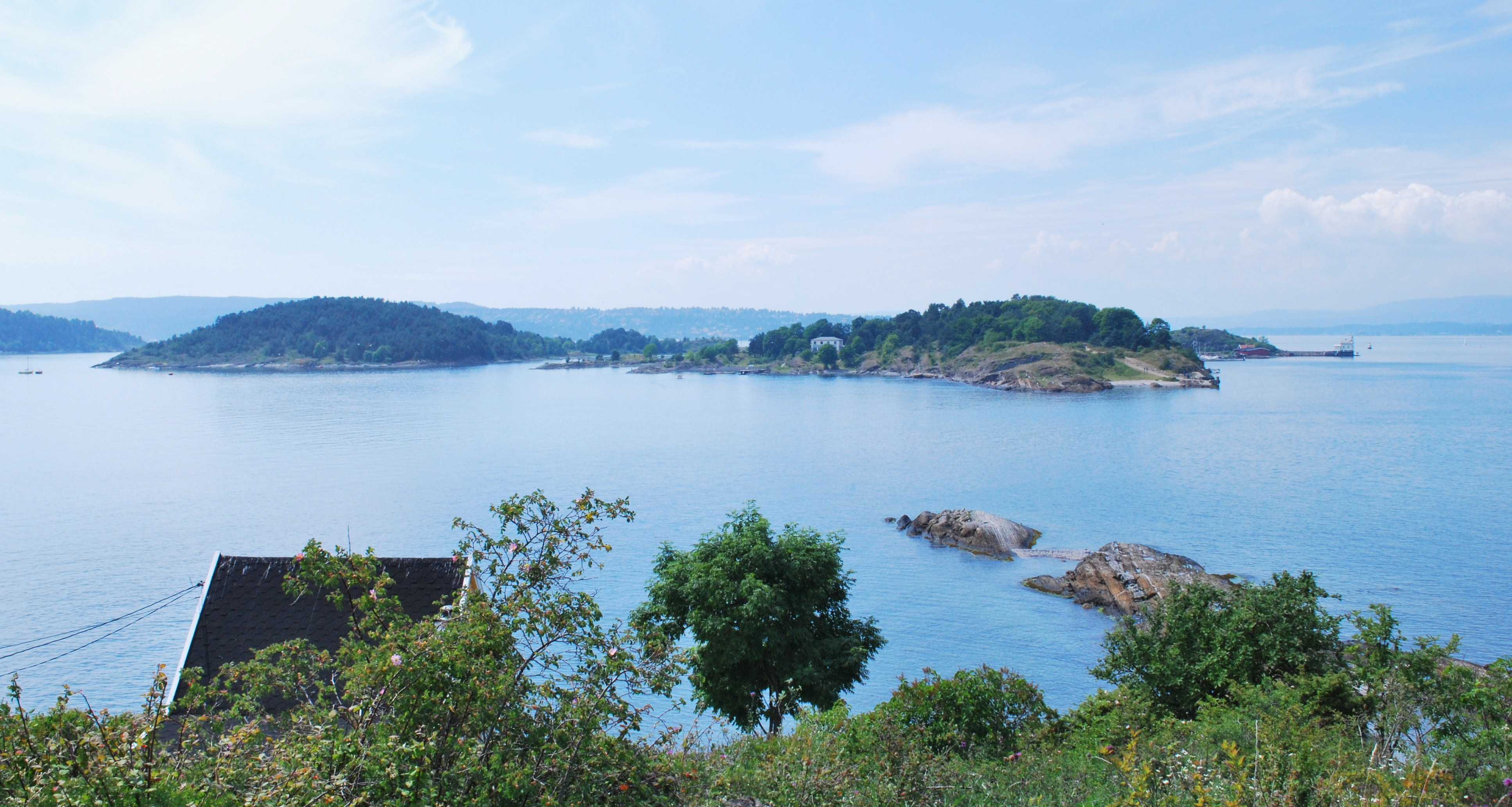 Gressholmen seen from Bleikøya, both Oslo